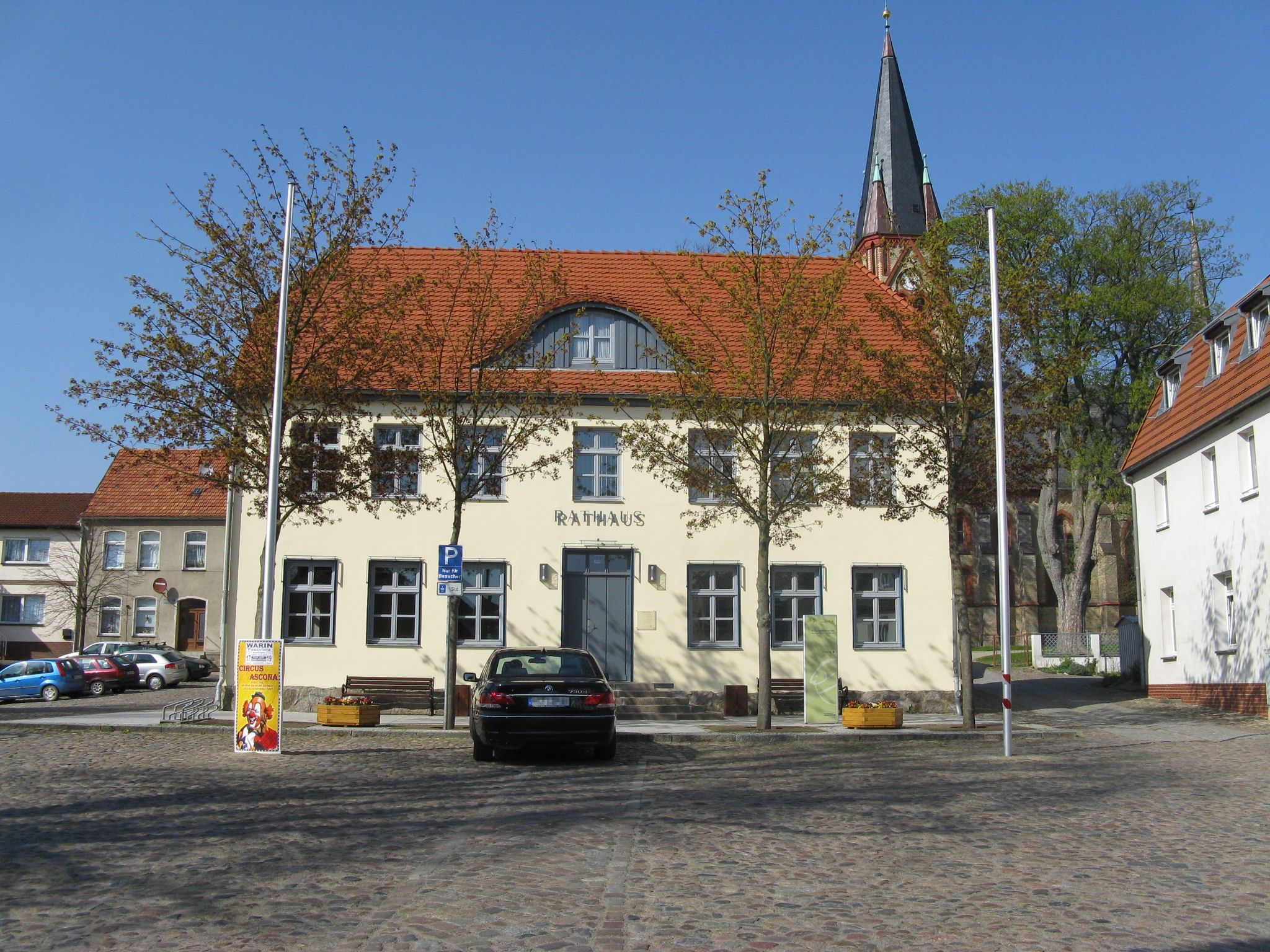 Town hall in Warin, disctrict Nordwestmecklenburg, Mecklenburg-Vorpommern, Germany